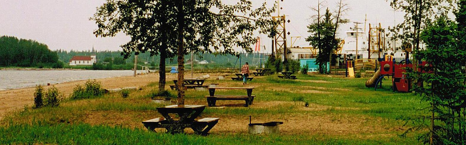 Hay River Beach in Old Town (Hay River, NWT)